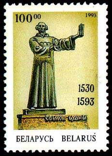 Stamp of Belarus